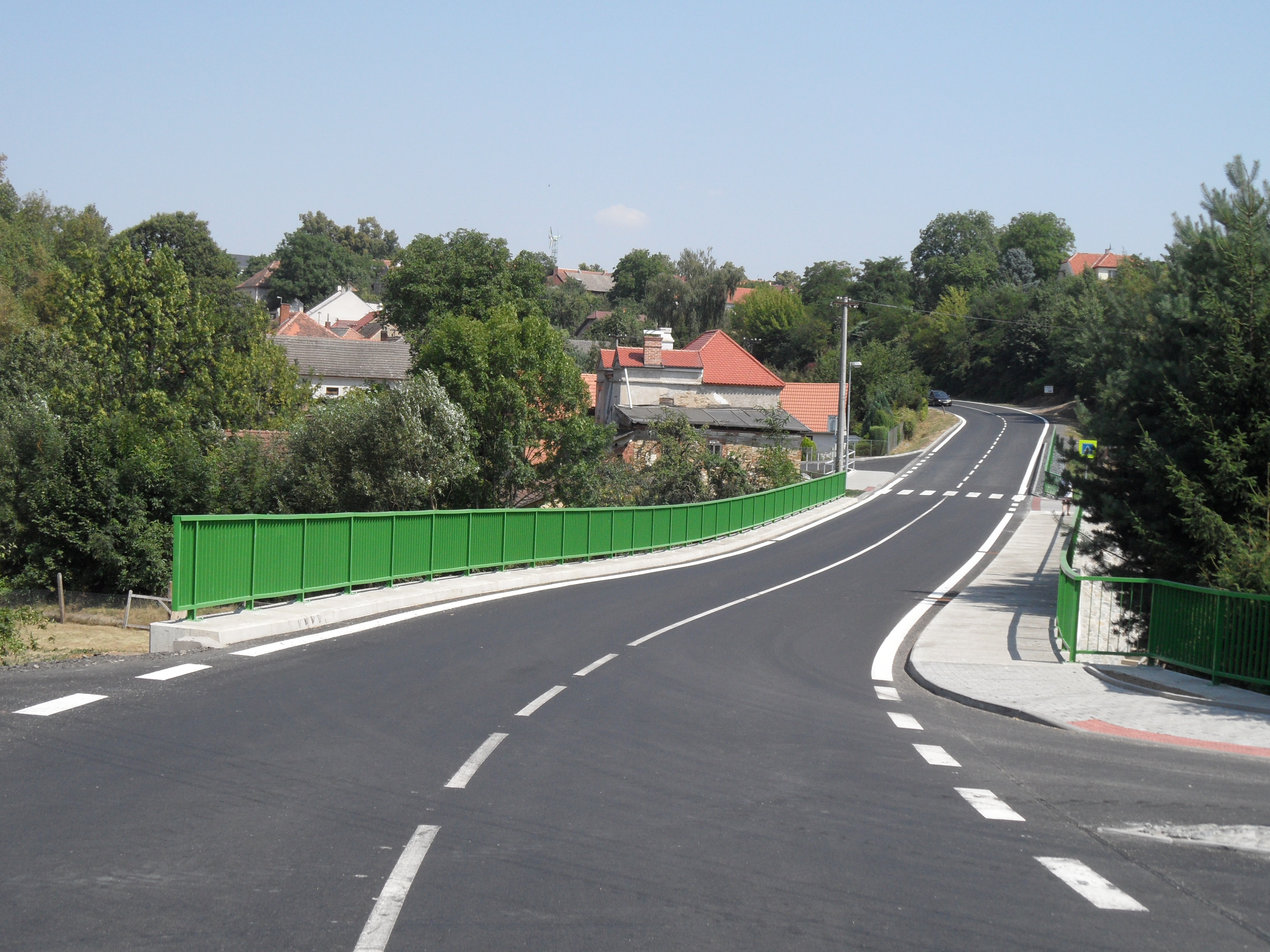 Road II/345 in Vilémov: New Bridge over Hostačovka, View from Golčův Jeníkov to the Centre of Vilémov, about Kilometr 5. Havlíčkův Brod District, the Czech Republic.